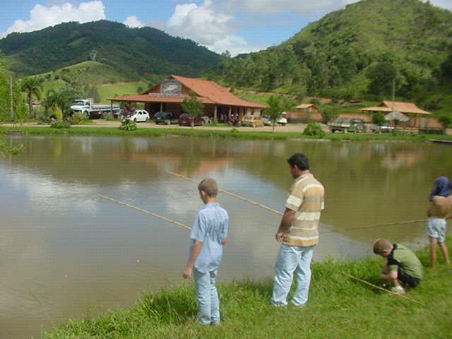 Foto do local